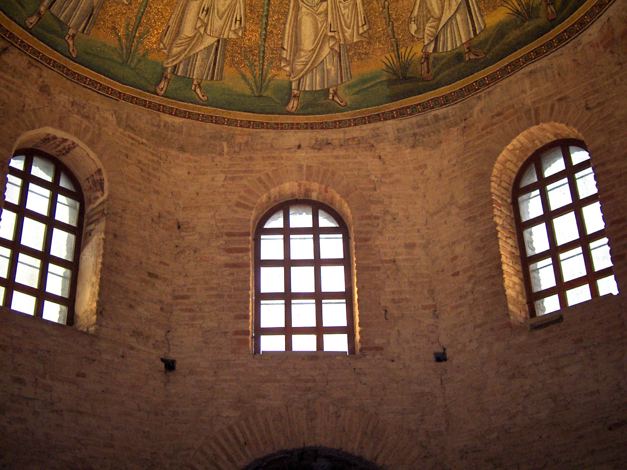 Interior of the Arian Baptistry, Ravenna, Italy